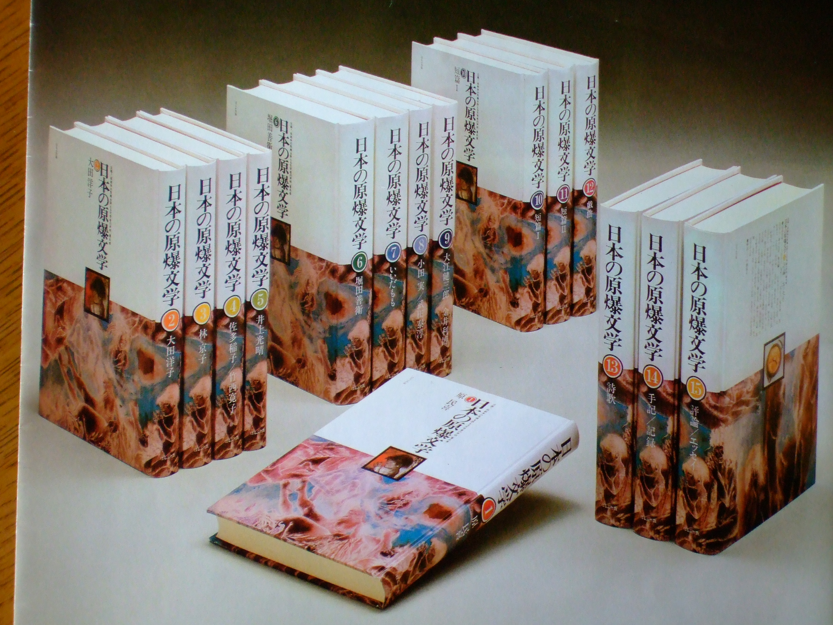 nihonnogenbakubungaku